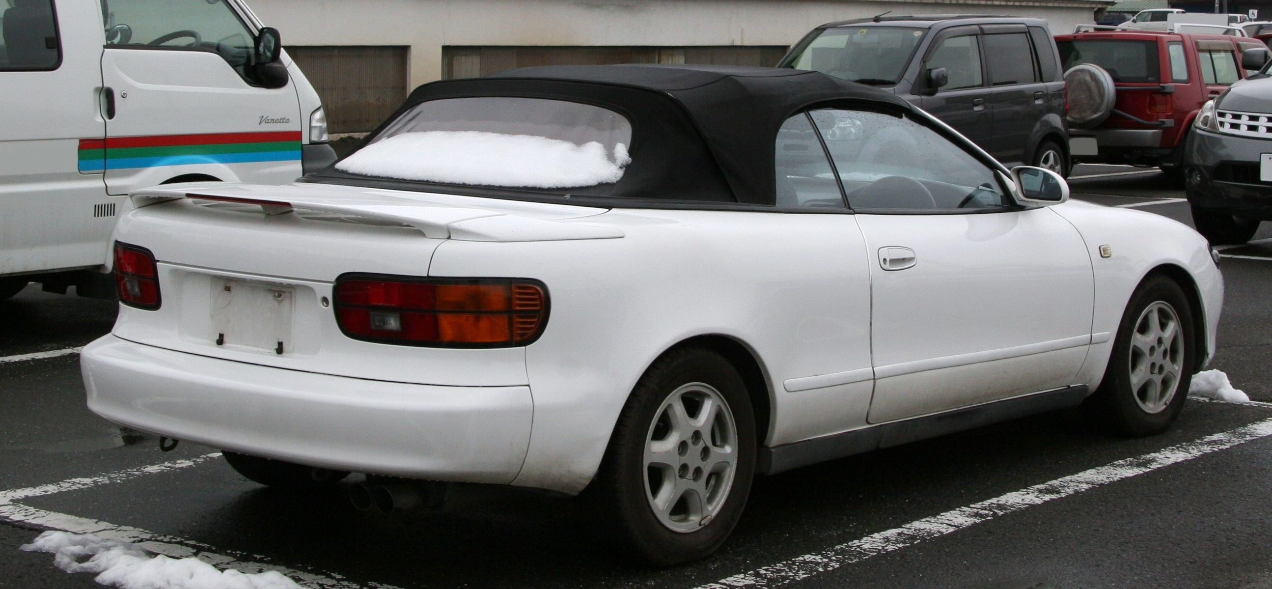 Toyota Celica Convertible